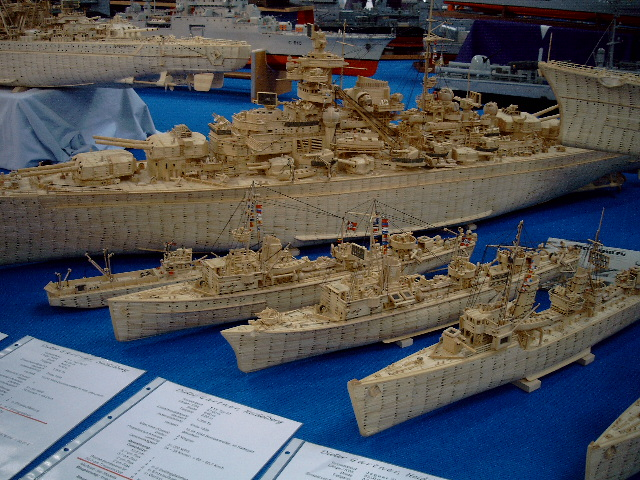 Wooden ship objects